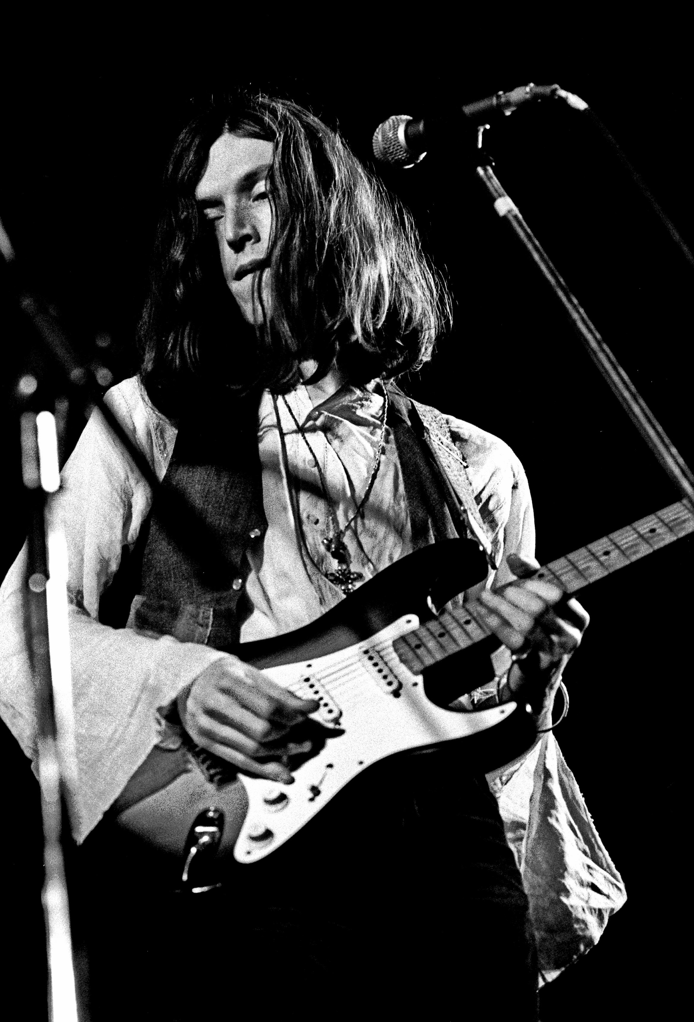 "Traffic" frontman Steve Winwood und Pete Brown 1973 in der Musikhalle, Hamburg